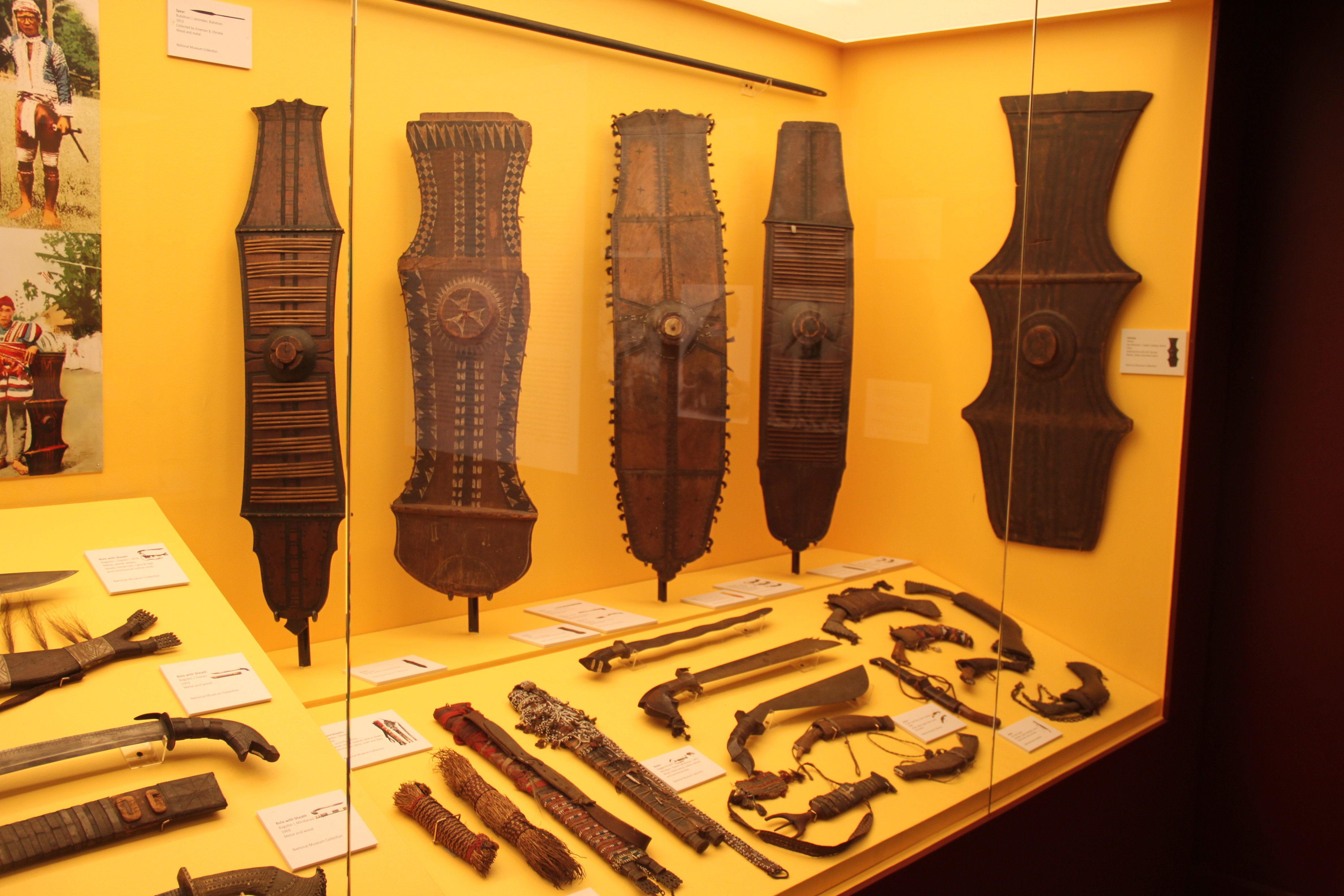 Bangsamoro and Lumad Cultures Gallery, Museum of the Filipino People, Rizal Park, Manila, Philippines. Complete indexed photo collection at .